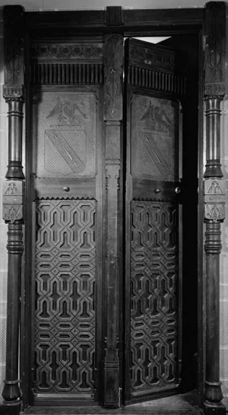 Cabinet doors from the library room at "Lindenshade" — the residence of Horace Howard Furness in Wallingford, Pennsylvania. Designed by Frank Furness, and created by Daniel Pabst in 1873 for HHF's Philadelphia house, reinstalled in 1903 at "Lindenshade." Image: HABS—Historic American Buildings Survey of Pennsylvania.